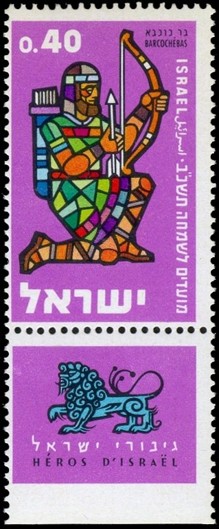 Joyous Festivals 5722 stamp - 0.40 Israeli lira - Heroes of Israel: Bar Kokhba.